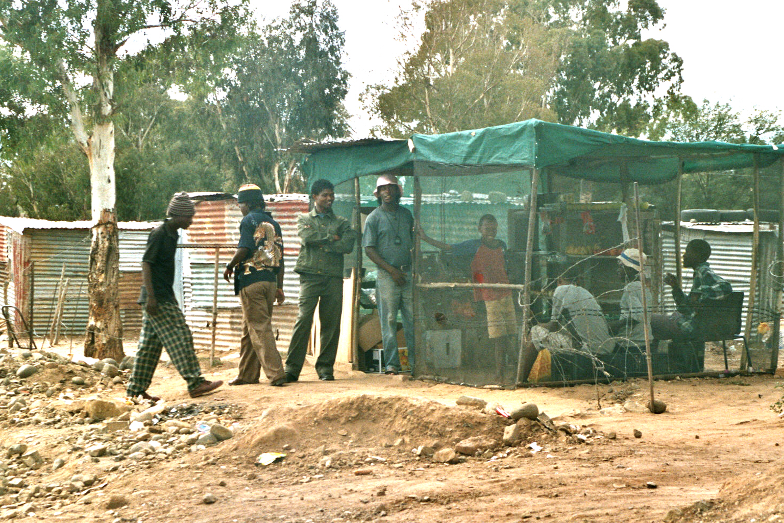 Little shop on the main street of Dukatole, part of Maletswai / Aliwal North